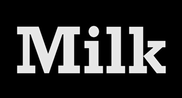 Screenshot from the movie Milk.